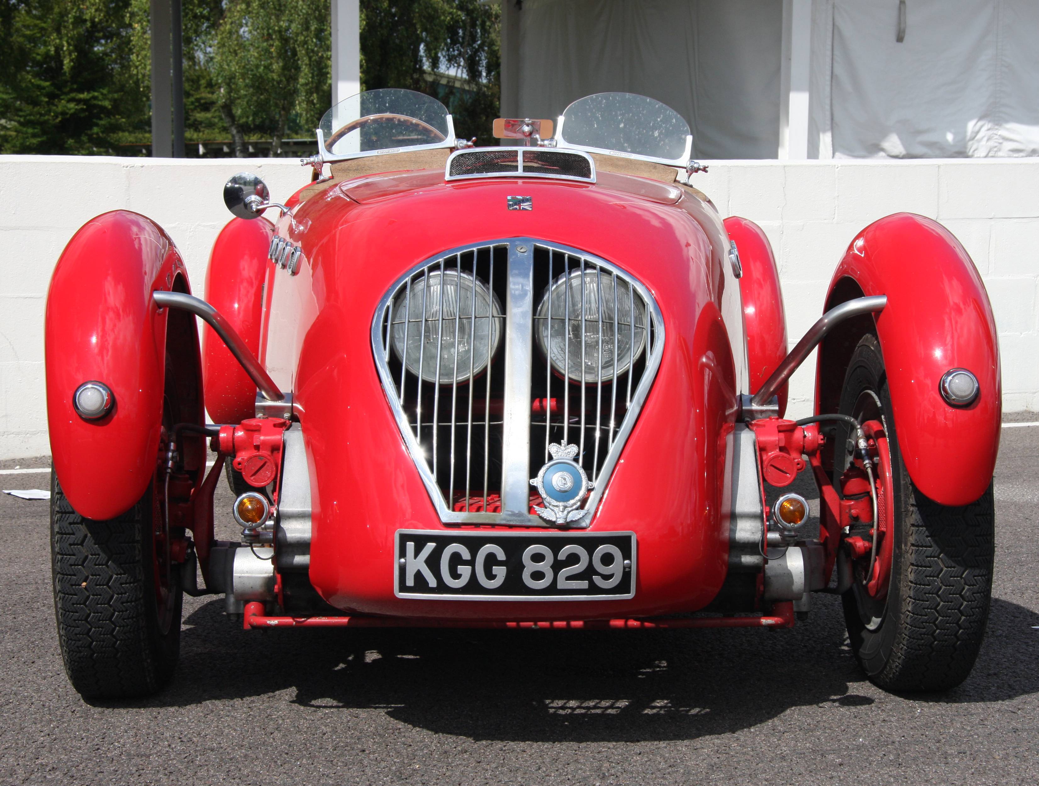 Healey Silverstone(DVLA) first registered 4 May 1950